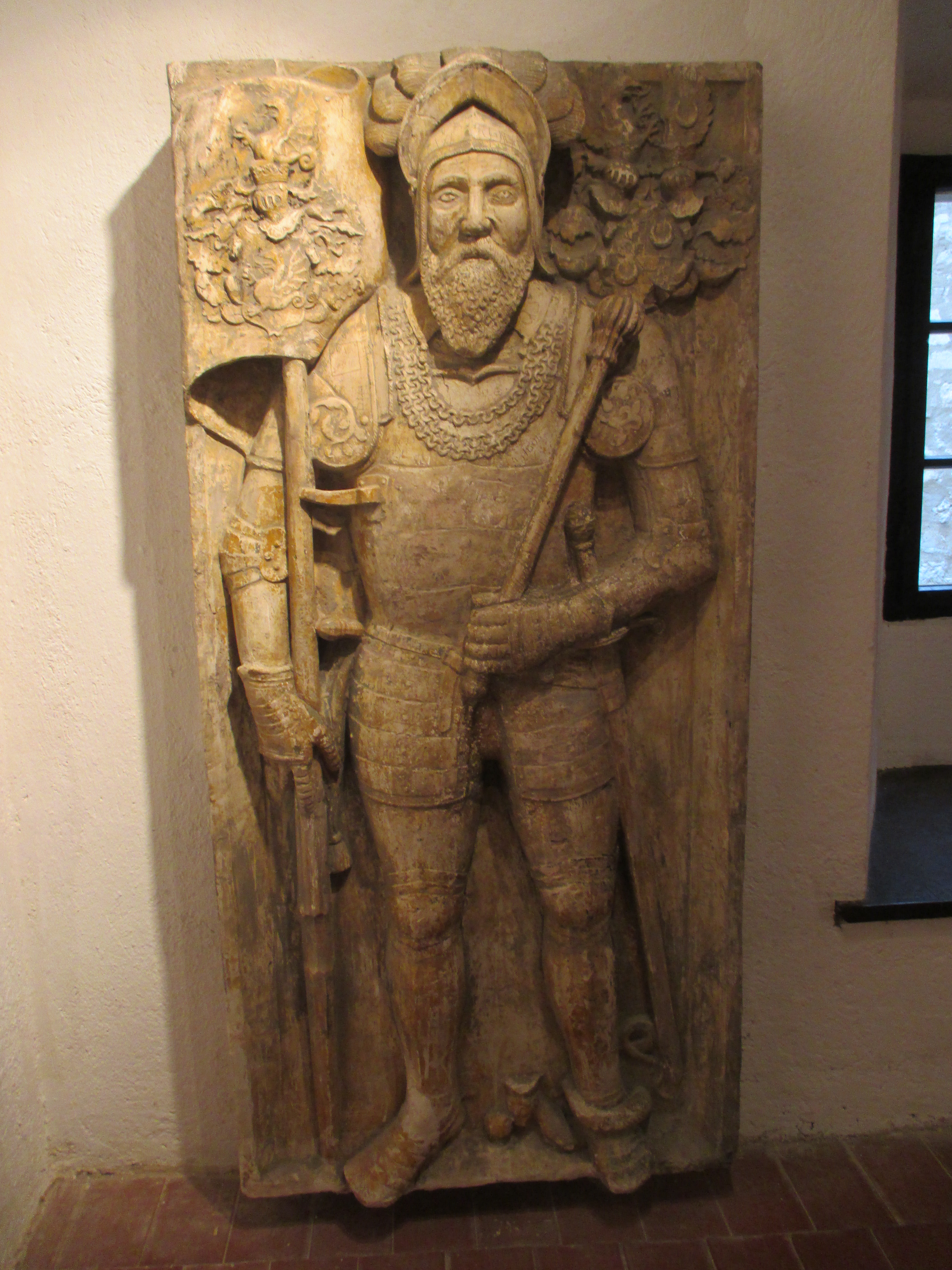 Cast of the tumbstone of Ivan Lenković (1569), from the Franciscan Church in Novo Mesto, preserved in the Nehaj fortress of Senj, Croatia. Ivan Lenković took part in the defence of Vienna from the Turks in 1529. Deputy captain of the Bihac region in 1539, Senj Captain in 1546, and Commander of all Uskoks from Senj to the Sava in 1556. Delegated as main ruler of Croatian and Slavonian regions, he renovated the Senj fortresses and bult the Nehaj castle between 1551 and 1558. He left all duties in 1567 and died at Otočec near Novo Mest in 1569